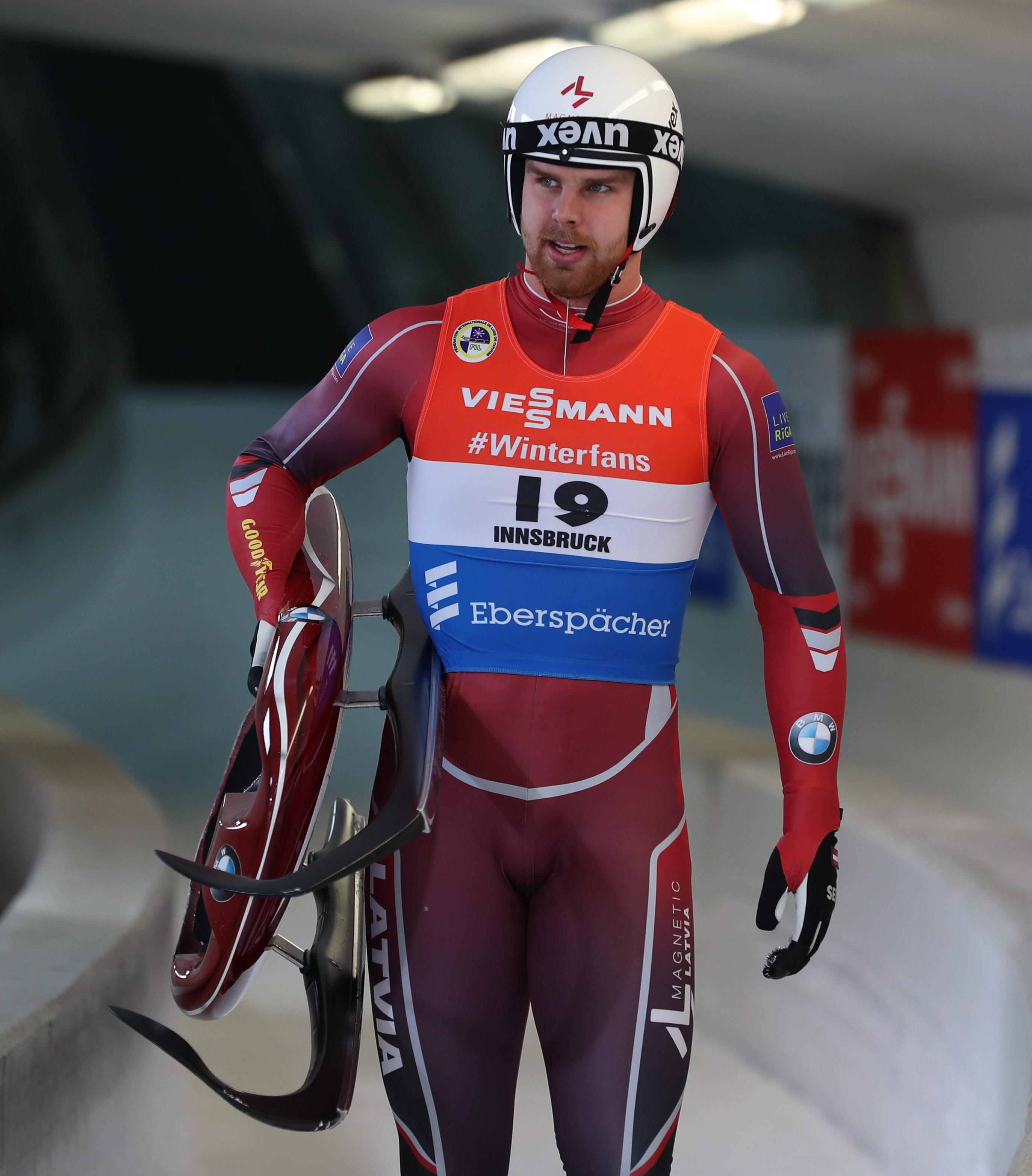 Men's World Cup race at the 2018/19 Luge World Cup in Innsbruck-Igls